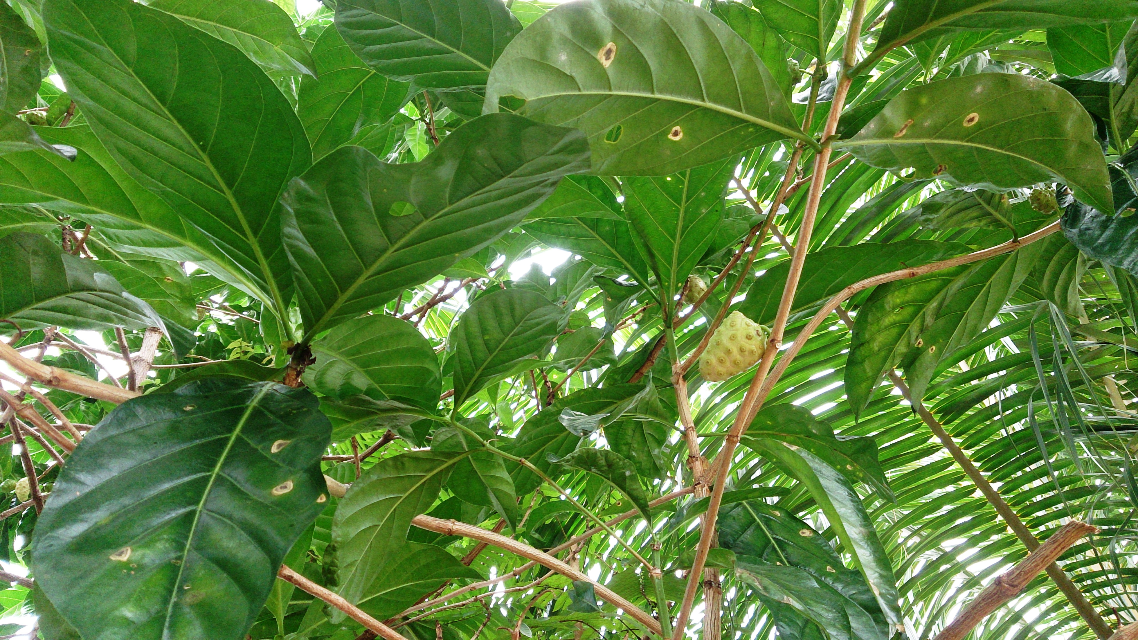 Morinda citrifolia